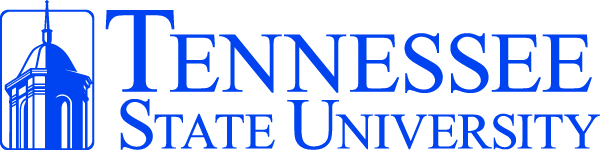 Official Logo of Tennessee State University